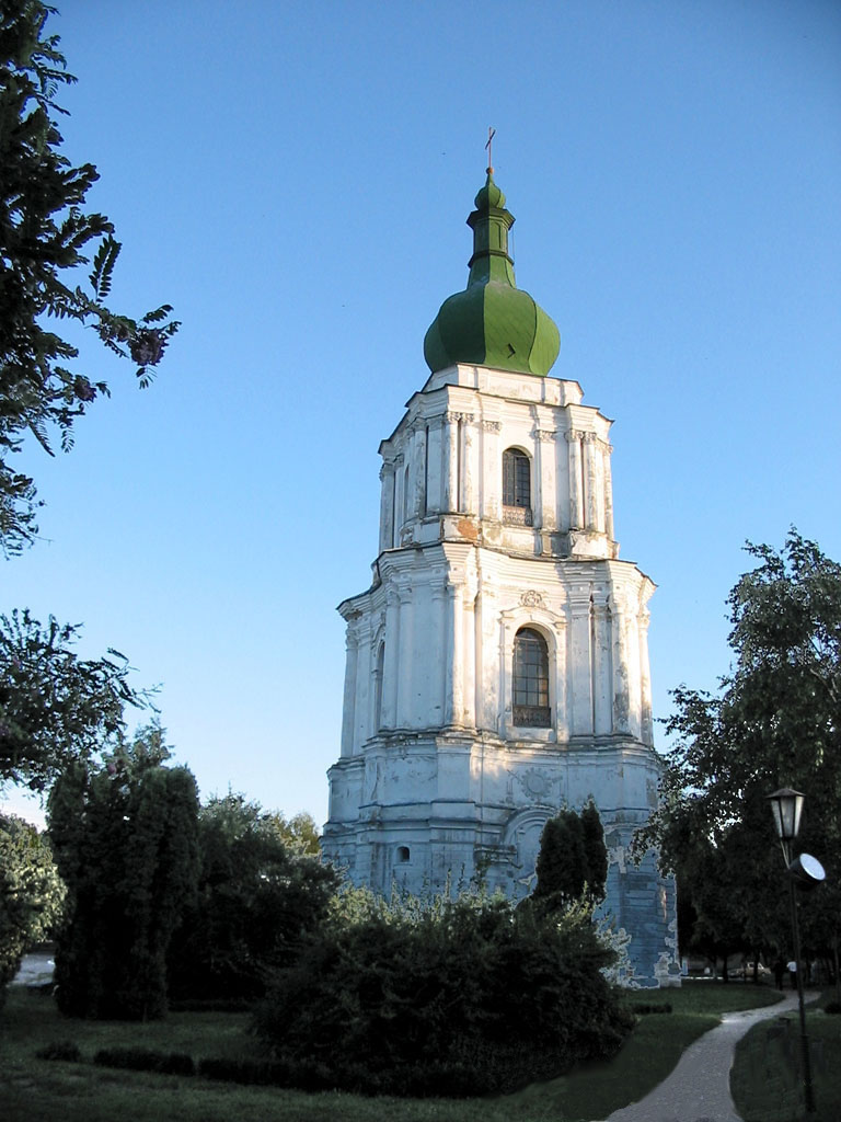 The Belltower of the Voznesenskyi Cathedral in Pereiaslav-Khmelnytskyi, Ukraine.